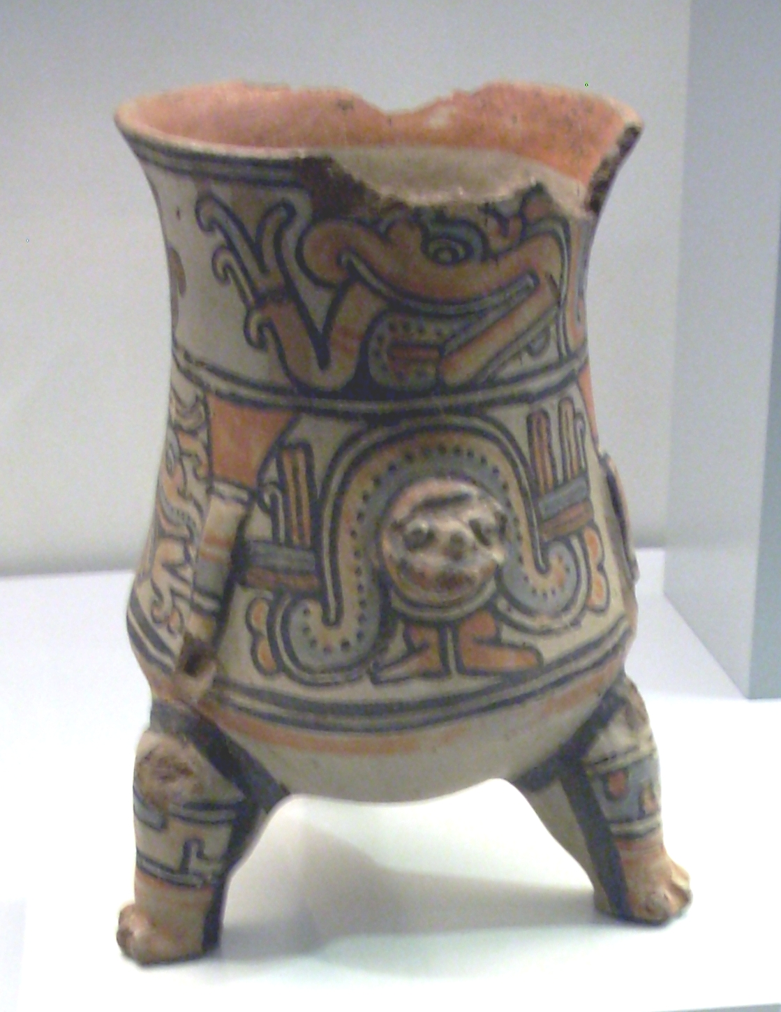 Ceramic vessel with representation of the feathered serpent. Nicoya Period VI (1000-1500 AD), Costa Rica. Item 3011.